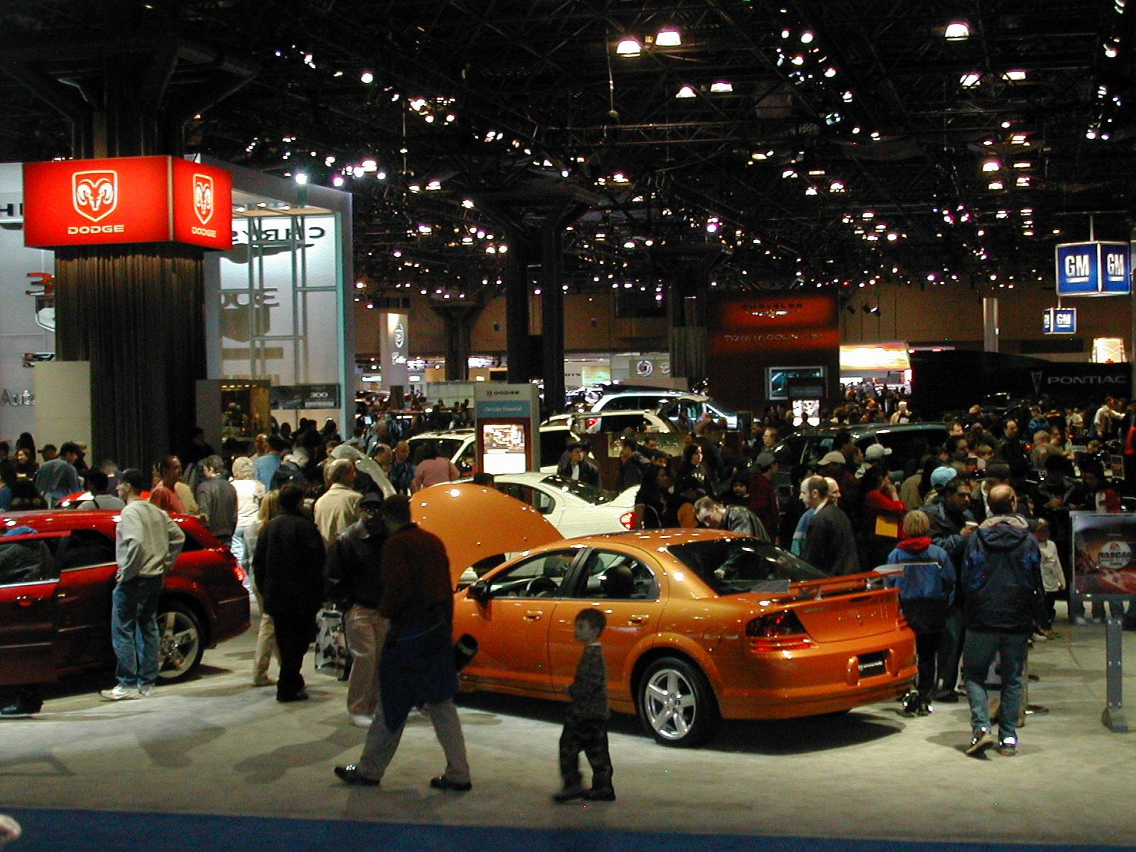 A small section of the New York International Auto Show.